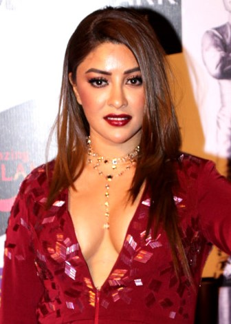 Payal Ghosh graces the Topgear awards.